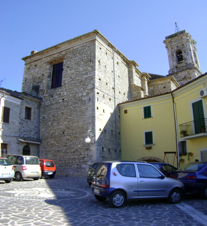 The presbytery of the church of Santa Maria del Popolo in Bomba, in the province of Chieti, Abruzzo